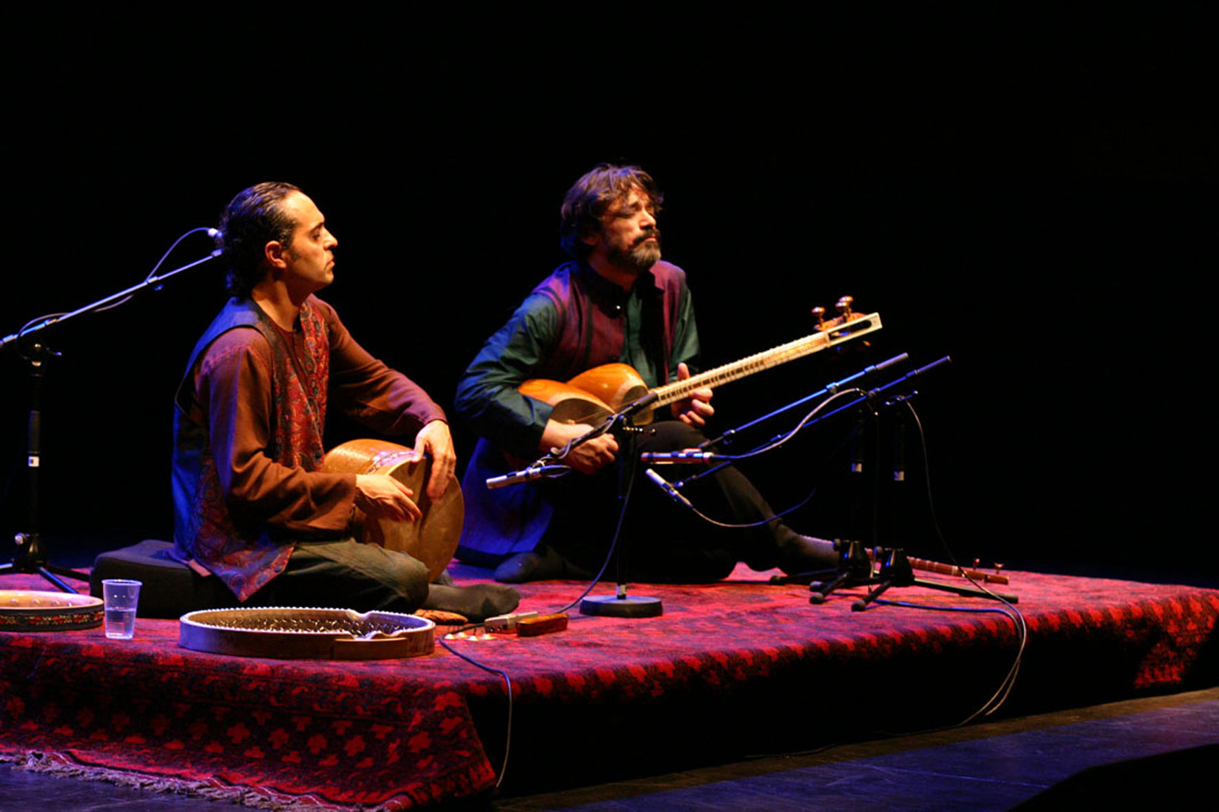 Madjid Khaladj et Hossein Alizadeh en concert à Copenhague